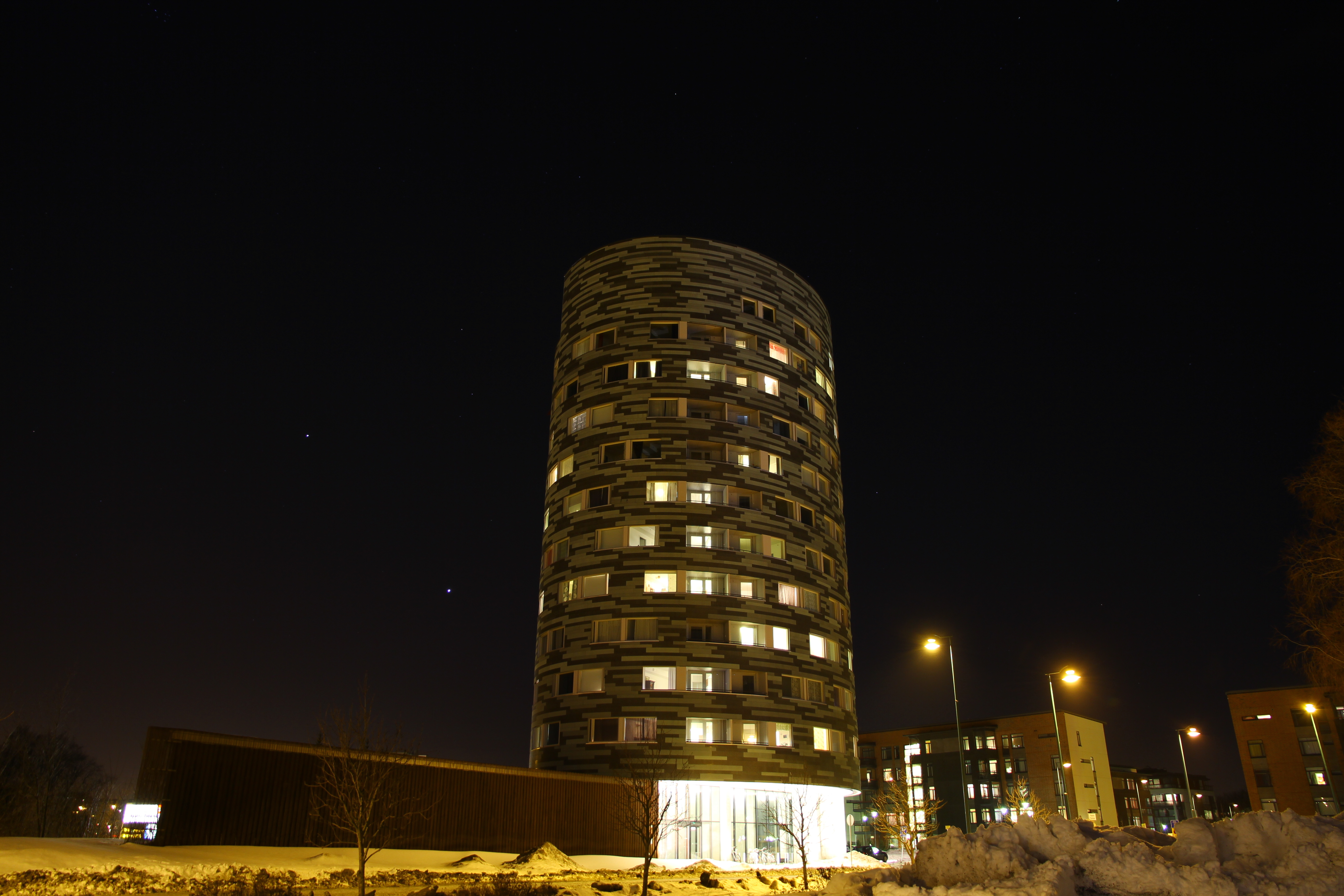 Ikituuri is an apartment building for students with 12 floors, totaling 43 meters in height. It is newest building project of the Student Village Foundation of Turku. Ikituuri is located in city of Turku, Finland.